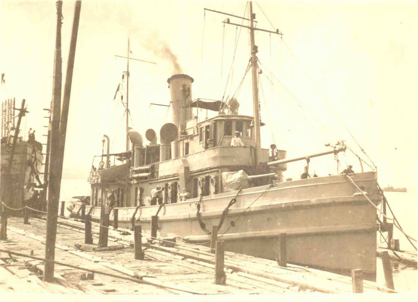 USS Chemung, docked at Guantanamo Bay, Cuba. February 4, 1919